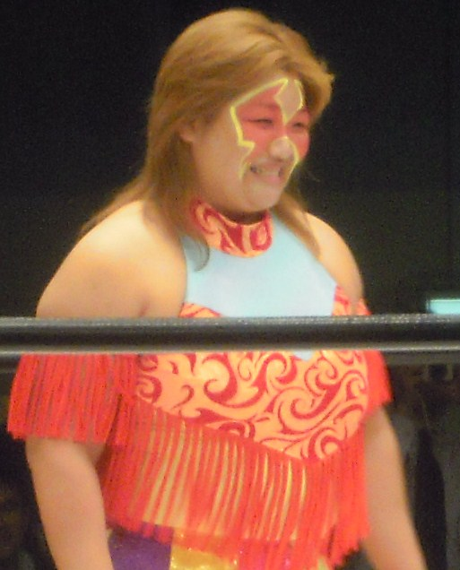 Japanese professional wrestler,Kyoko Inoue. Oct 27 2011 Sendai Girls Korakuen Hall.